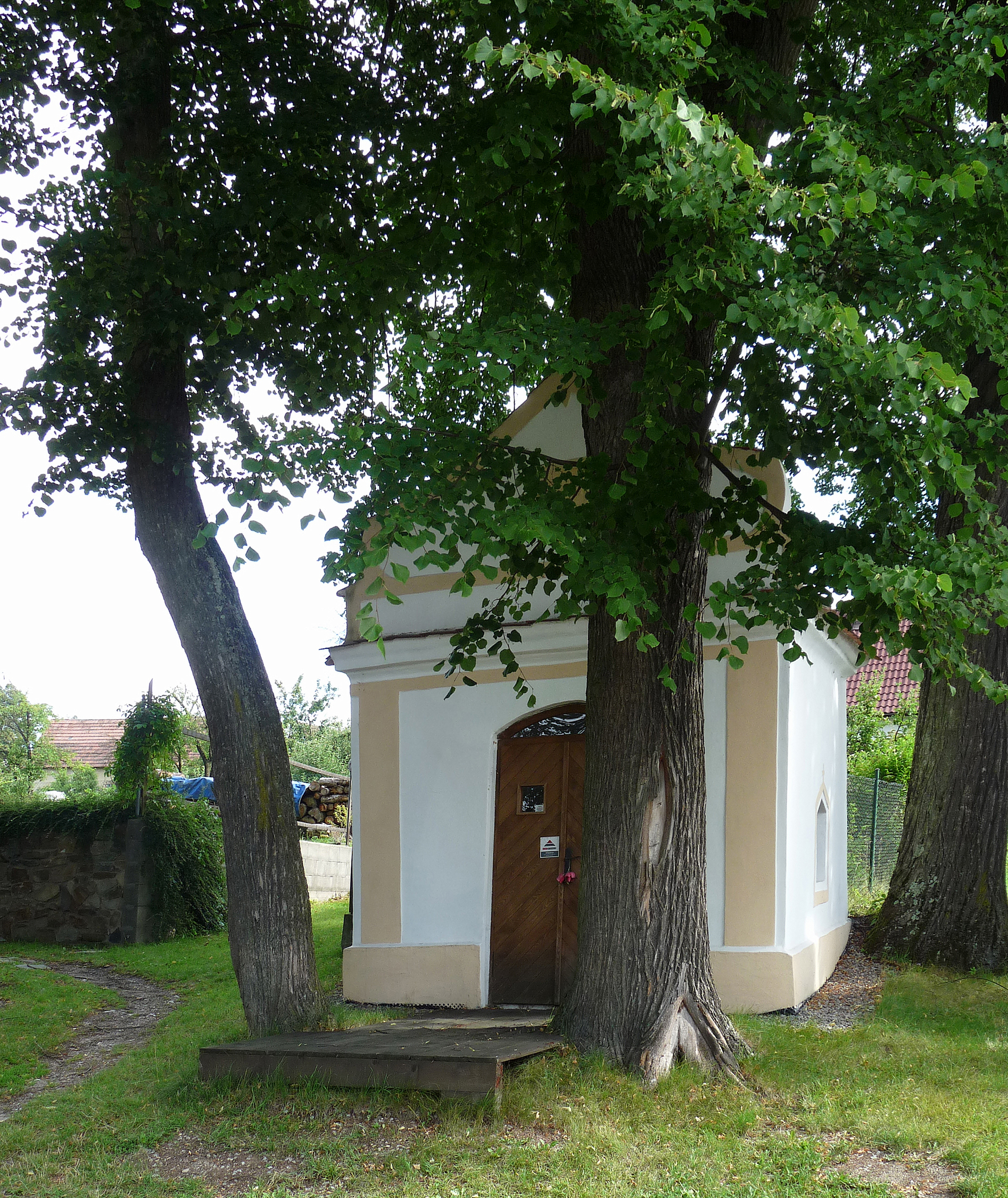 Chapel in Ostrolovský Újezd, a village in České Budějovice District, Czech Republic.